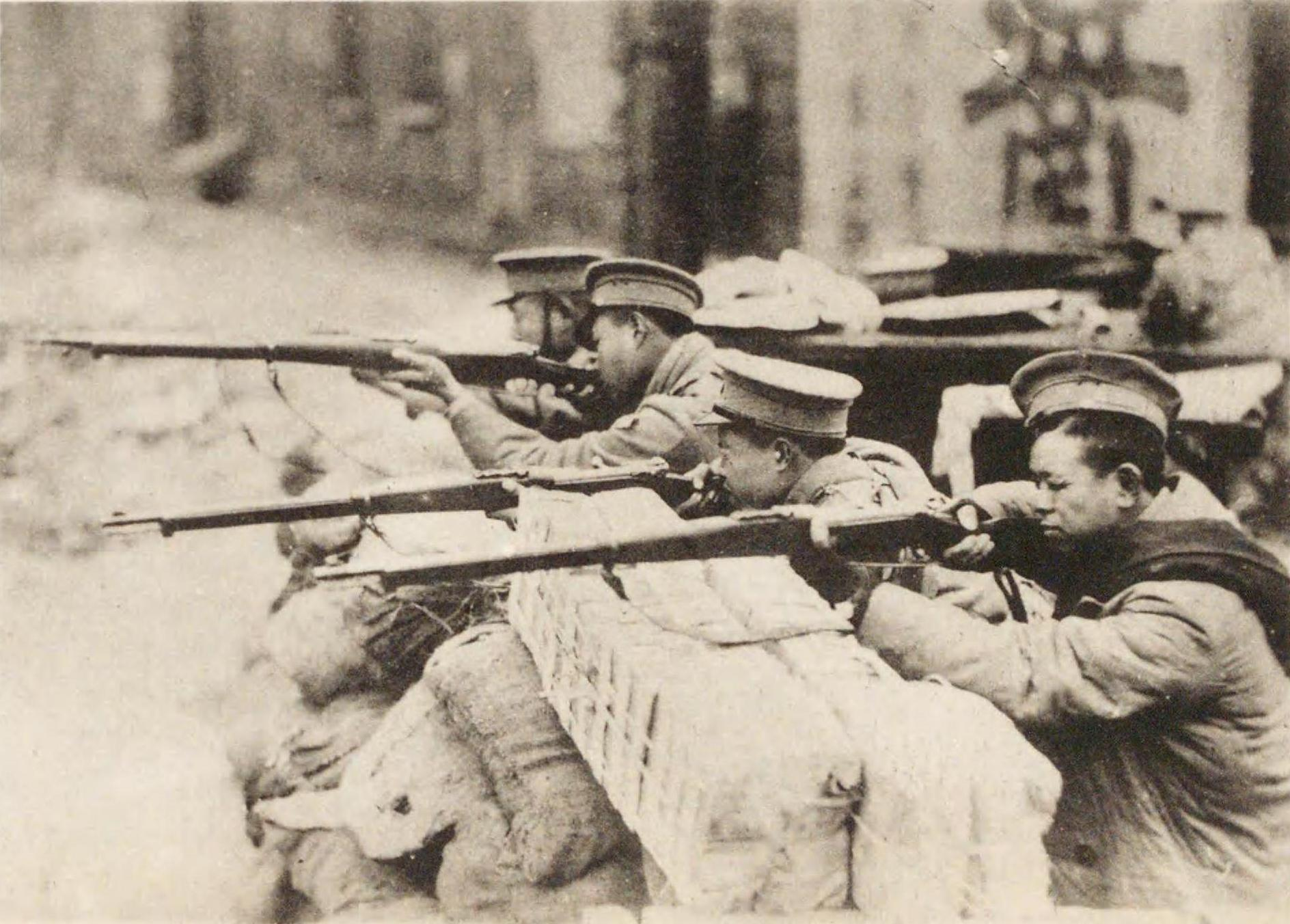 The 19th Root Army, being in engagement with the Japanese in Chapei front